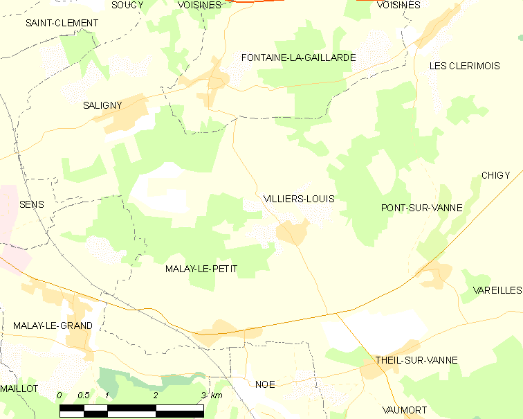 Map of French municipality Villiers-Louis